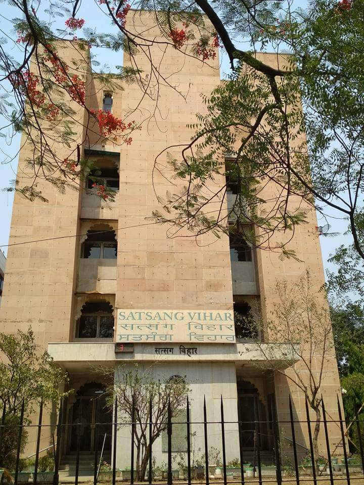 Satsang Vihar Delhi